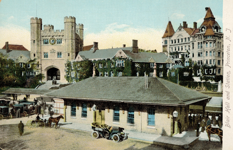 Princeton University's Blair Hall and 1865-1918 Princeton railroad station (tinted postcard c.1910)